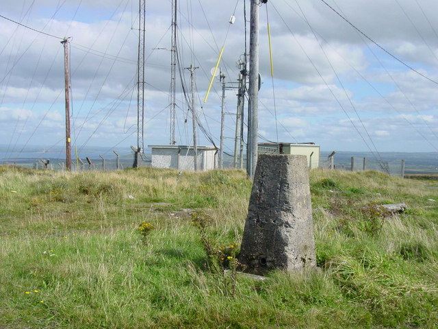 The trig point on Knockanore Mountain This is the trig point on the summit of Knockanore Mountain which is surrounded by several aerial masts and buildings. It is well worth the drive or walk to the summit where there are good views all round.